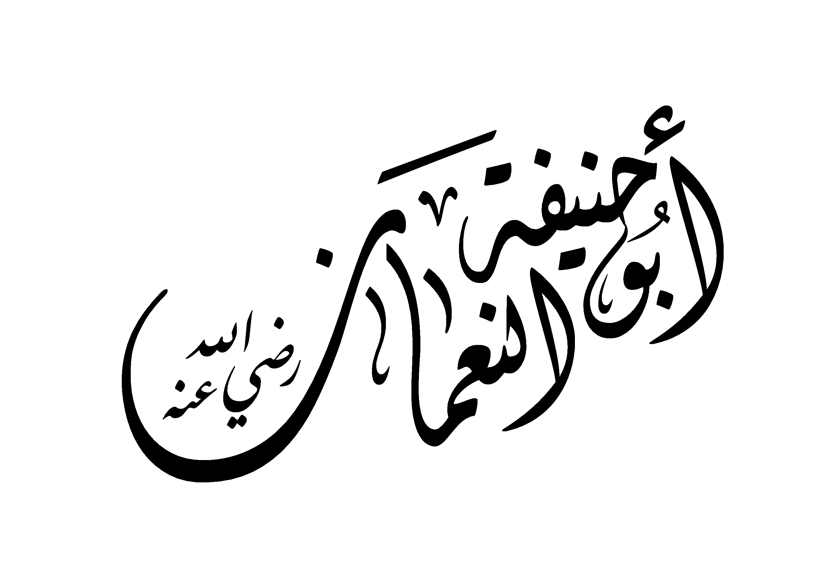 Abū Ḥanīfa's name in Arabic script